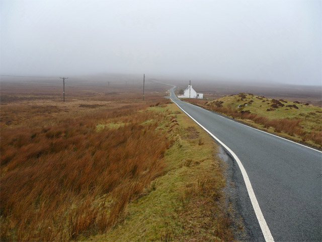 The road to the north of Trotternish The A855 heading north, passing the last house in Flodigarry before fading into the mist.